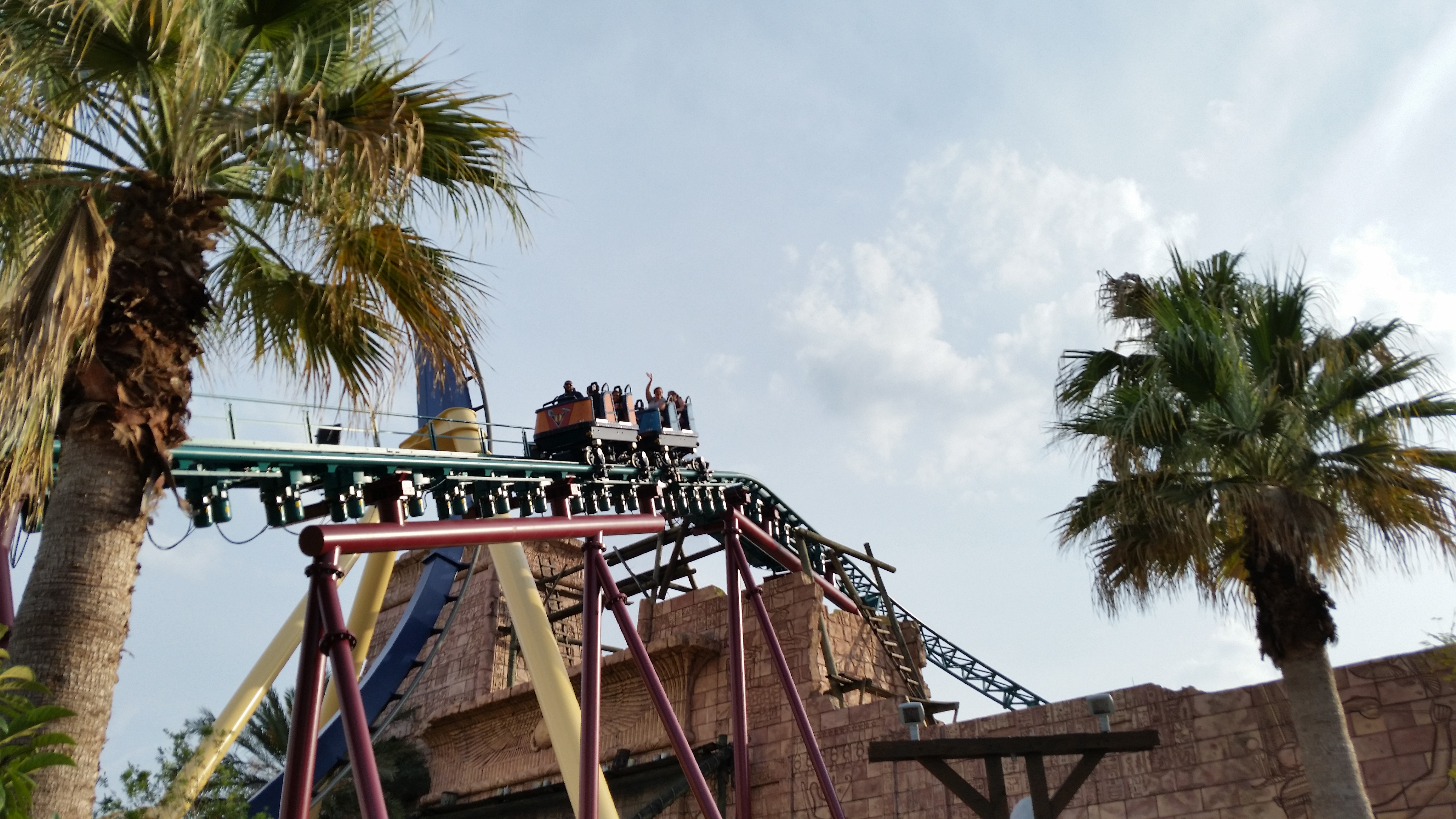 Busch Gardens Tampa Bay 10165 N McKinley Dr, Tampa, FL 33612 US